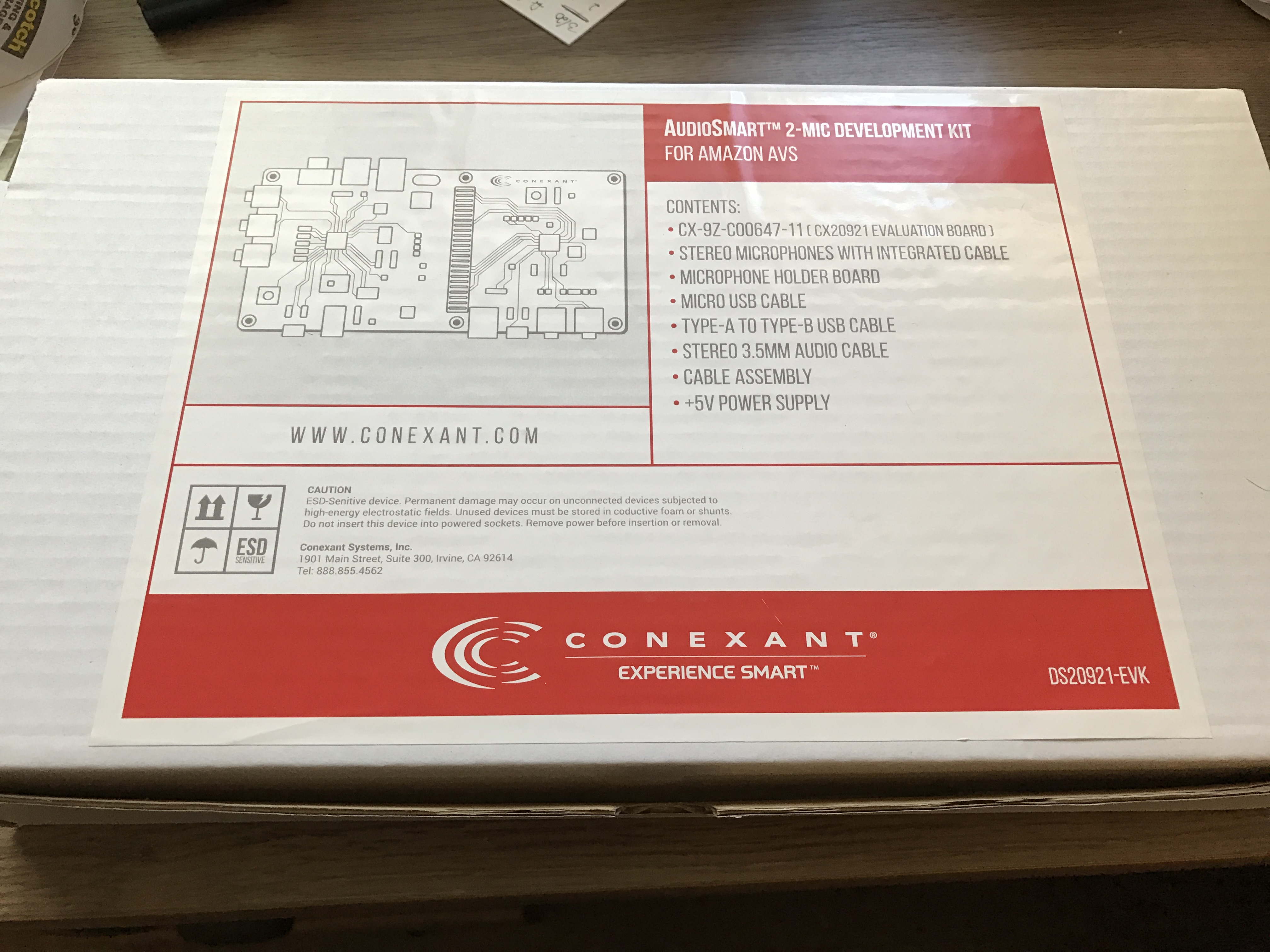 Designed to help developers quickly and easily create hands-free audio front end systems for Alexa-enabled products, this development kit features Conexant's AudioSmart™ CX20921 Voice Input Processor with a dual microphone board and Sensory's TrulyHandsfree™ wake word engine tuned to "Alexa". • Dual Microphone Hands-Free Voice Interaction with Smart Source Pickup™ • Low Power Embedded Alexa Wake Word Engine • Full Duplex Stereo Acoustic Echo Cancellation (AEC)